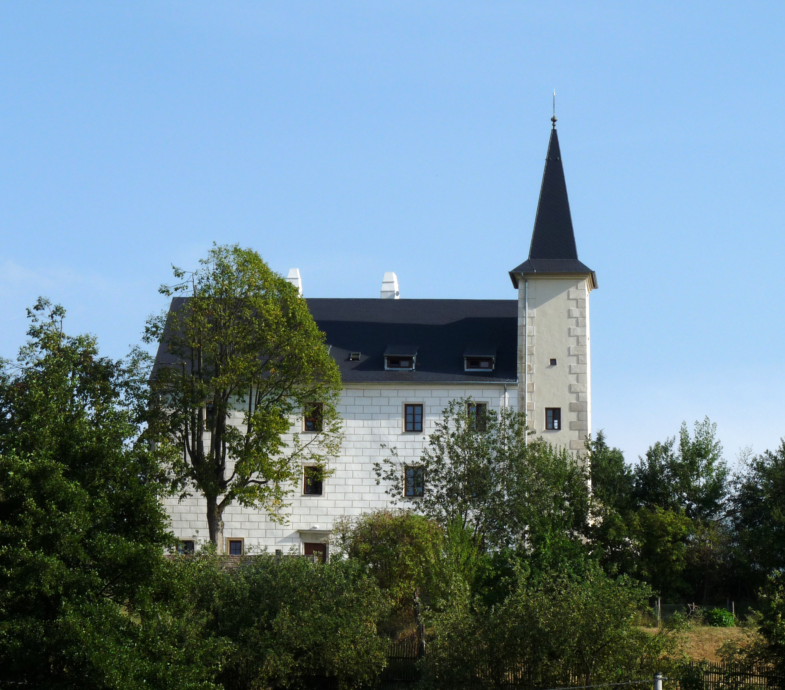 Castle in the village of Příseka, part of the town of Brtnice, Jihlava District, Vysočina Region, Czech Republic.